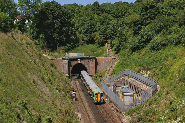 Merstham Tunnel. A Southern Class 377 Electrostar on a Victoria to Bognor Regis/Southampton Central working, emerging from Merstham Tunnel on the original South Eastern Railway north of Redhill. The entrance is locally listed.